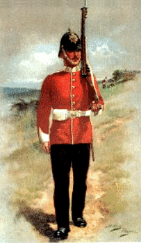 Illustration of a private of the East Lancashire Regiment in pre-1914 full dress